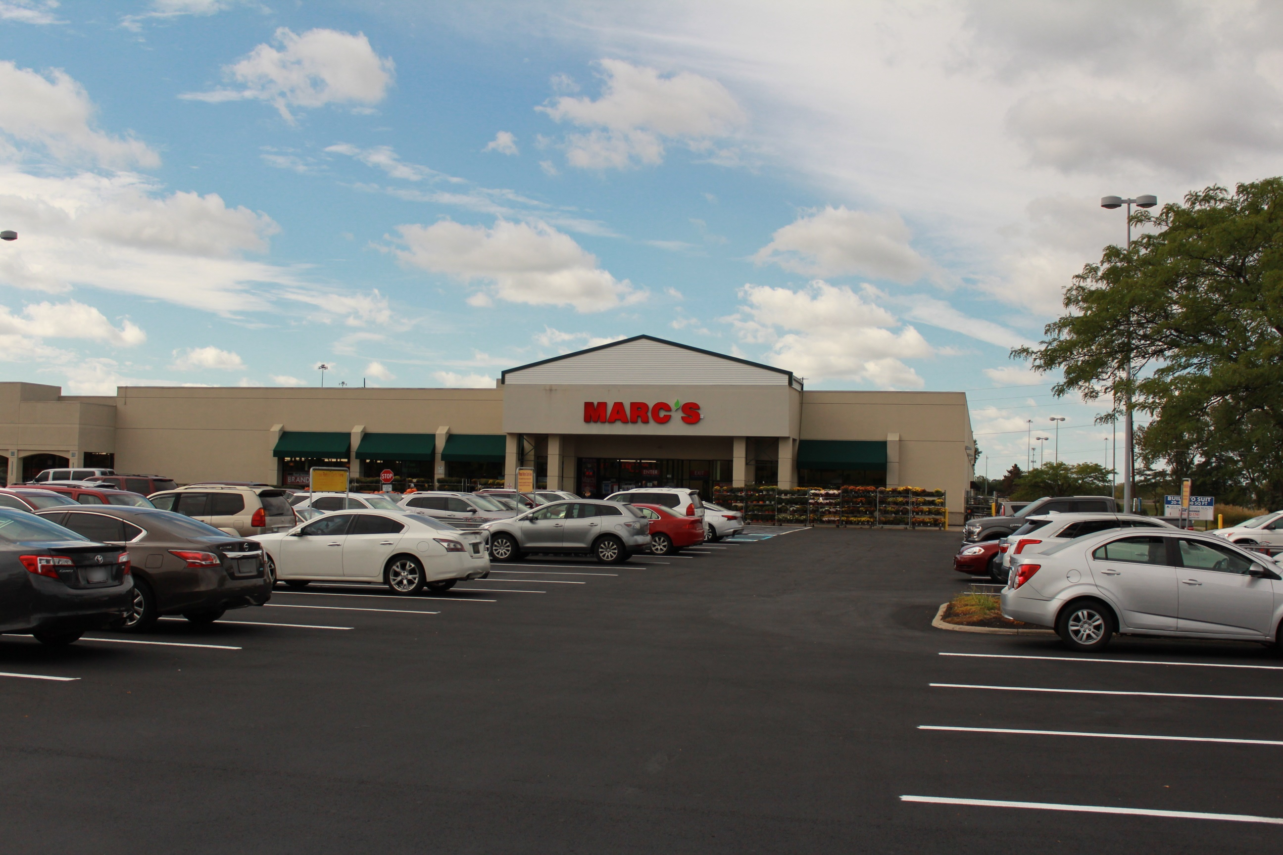 Marc's store located in Westerville, Ohio.